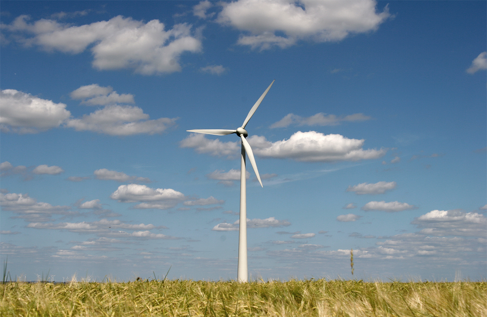 Modern wind energy plant in rural scenery.